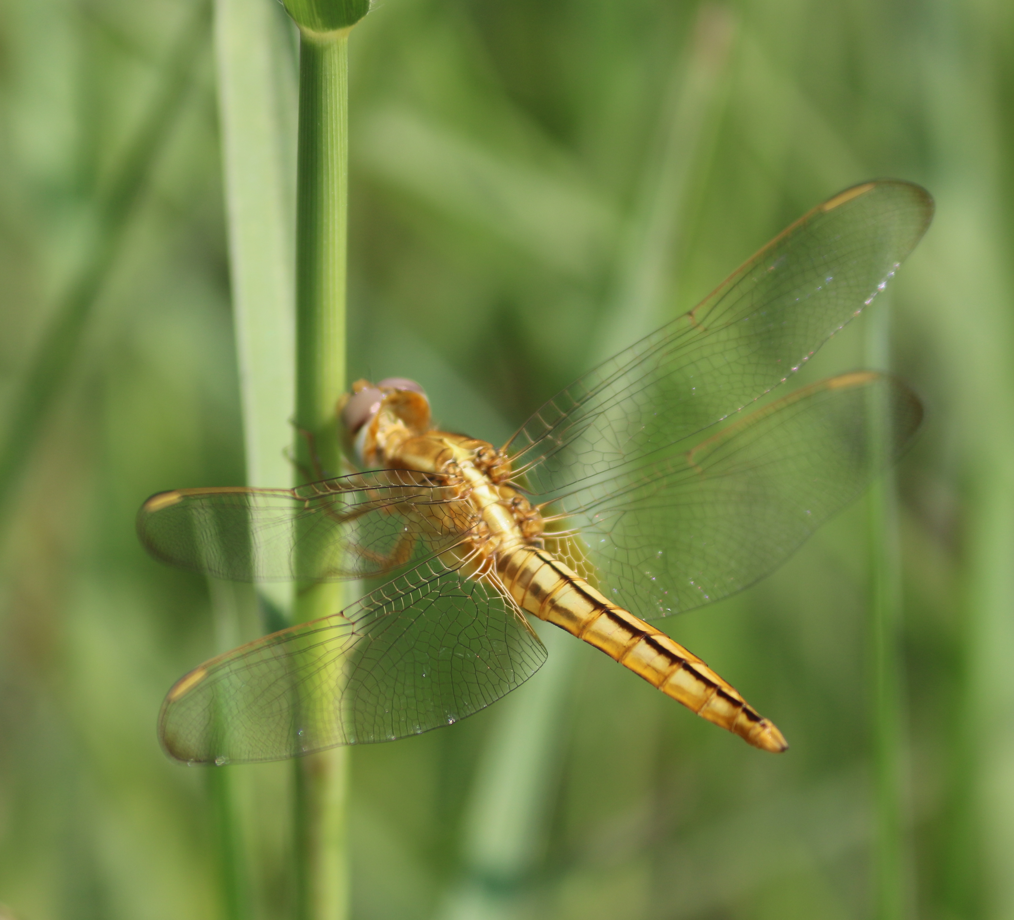 വയൽത്തുമ്പി (Scarlet skimmer)Crocothemis servilia, young male March 2020 Koottanad, Palakkad